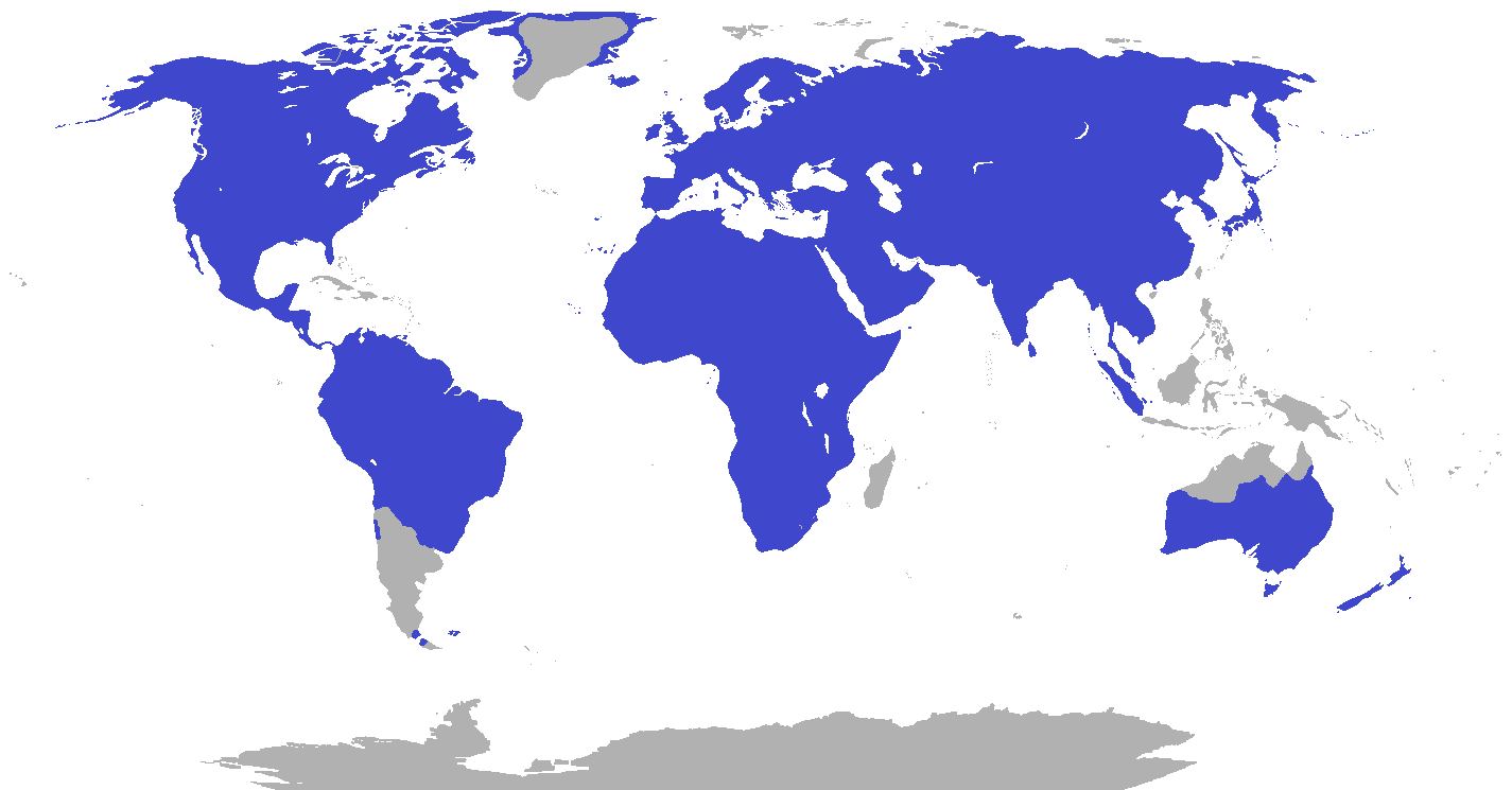 Map showing the range of the Rabbit.